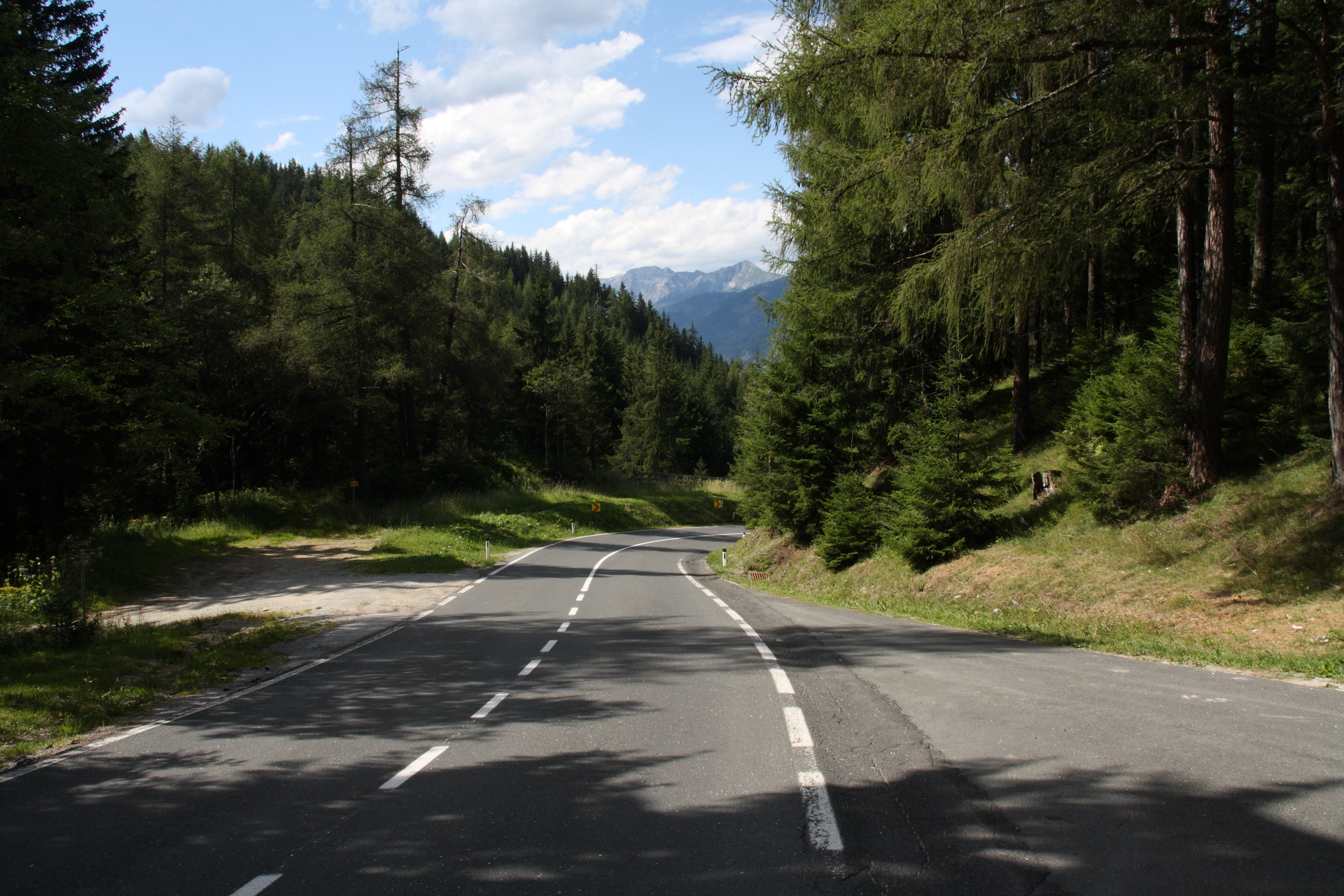 Katschberg Pass, north ramp